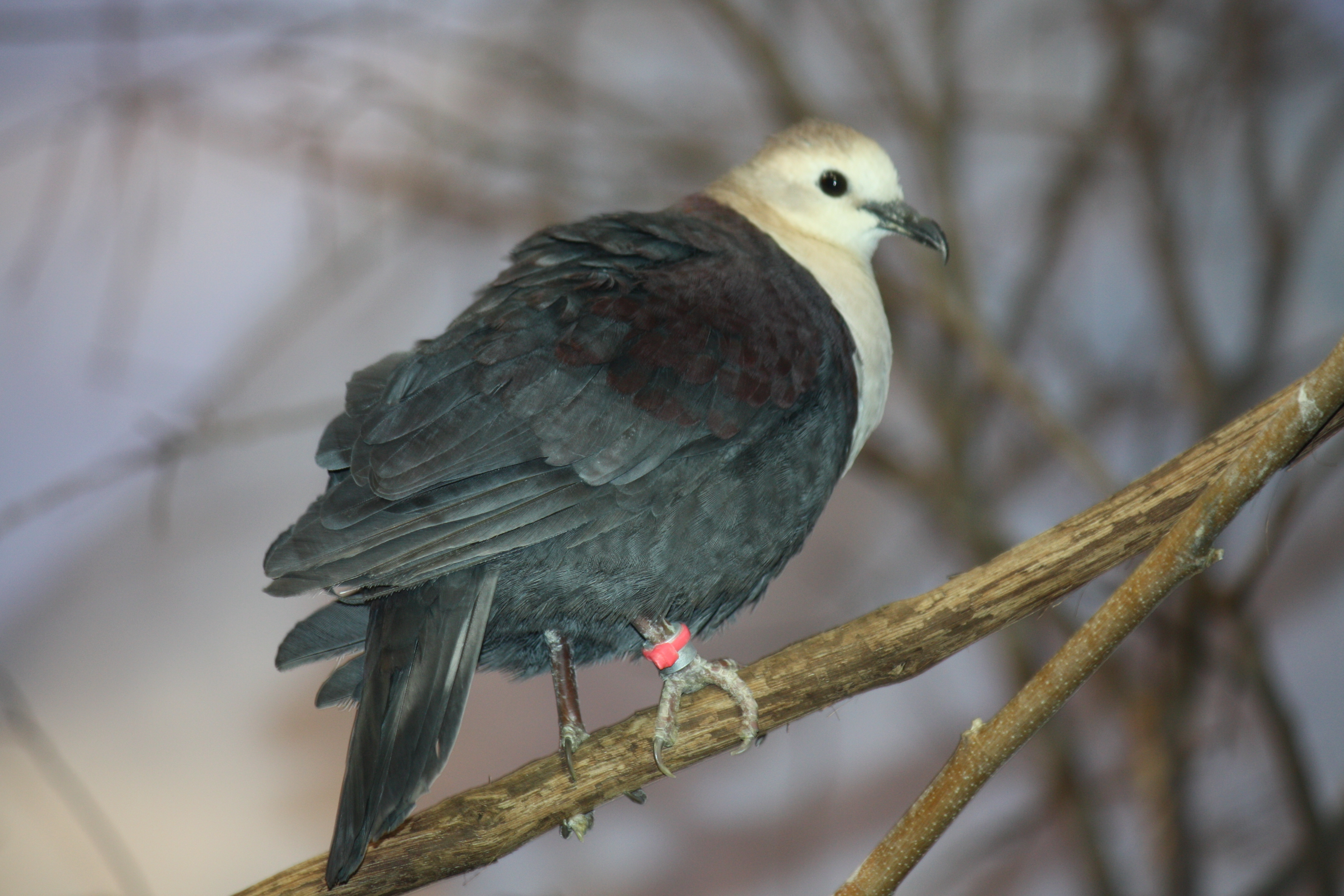 Male White-throated Ground Dove (Gallicolumba xanthonura) at the Louisville Zoo